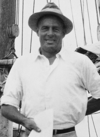 Rumrunner Captain William S.(Bill) McCoy, c.1921